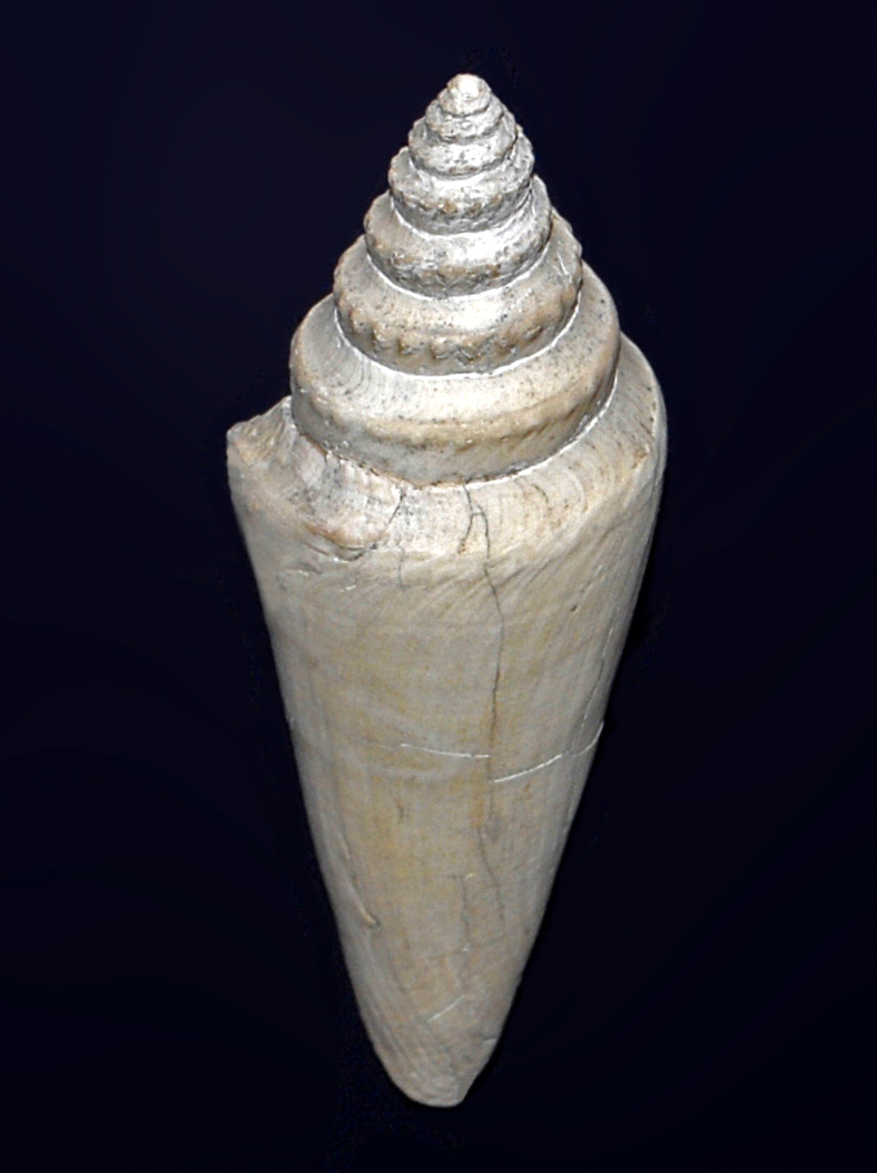 Fossil shell of Conilithes antidiluvianus from Pliocene of Italy, on display at the Museo Paleontologico, Asti